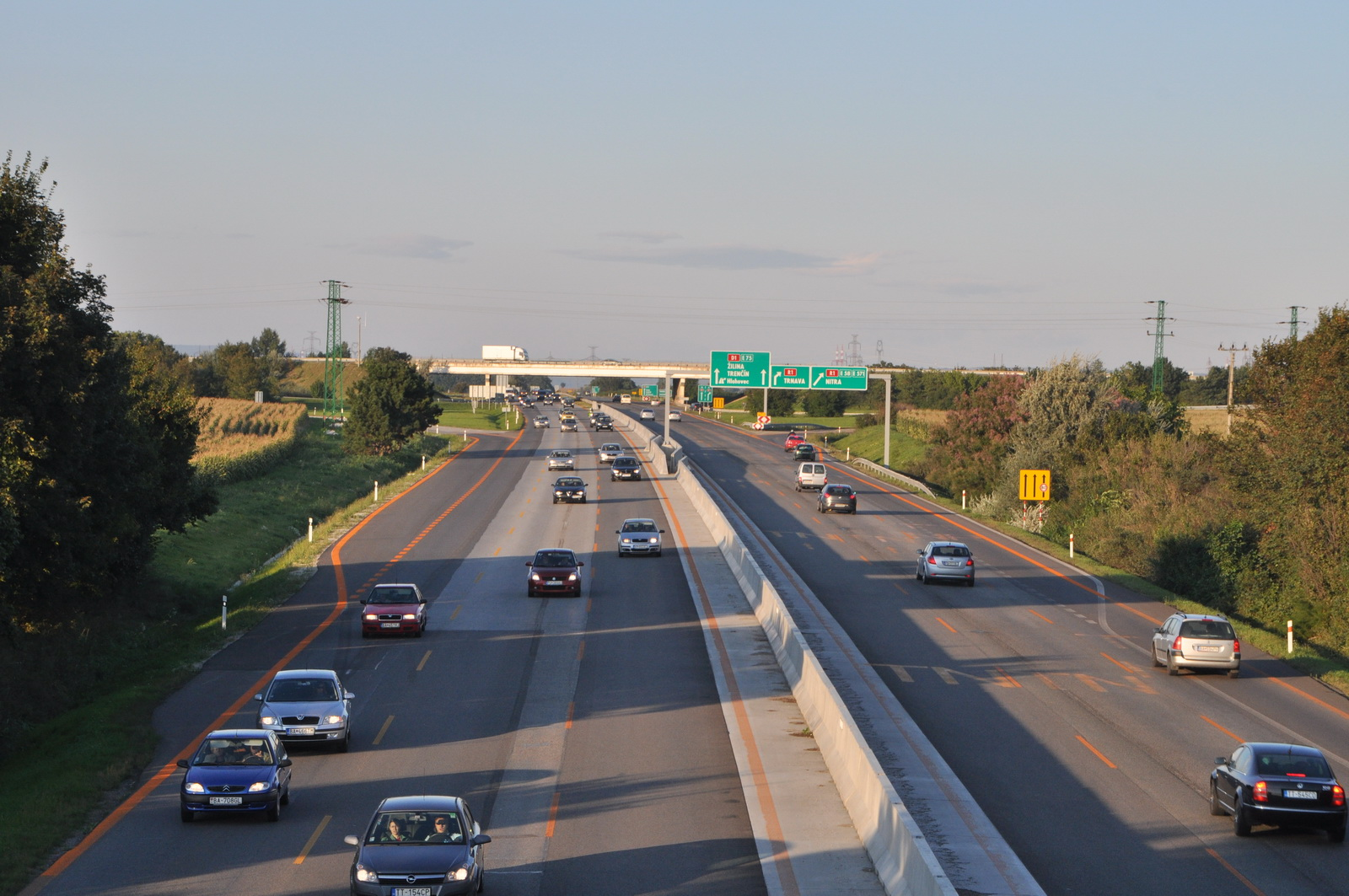 D1 intersection Trnava direction Zilina